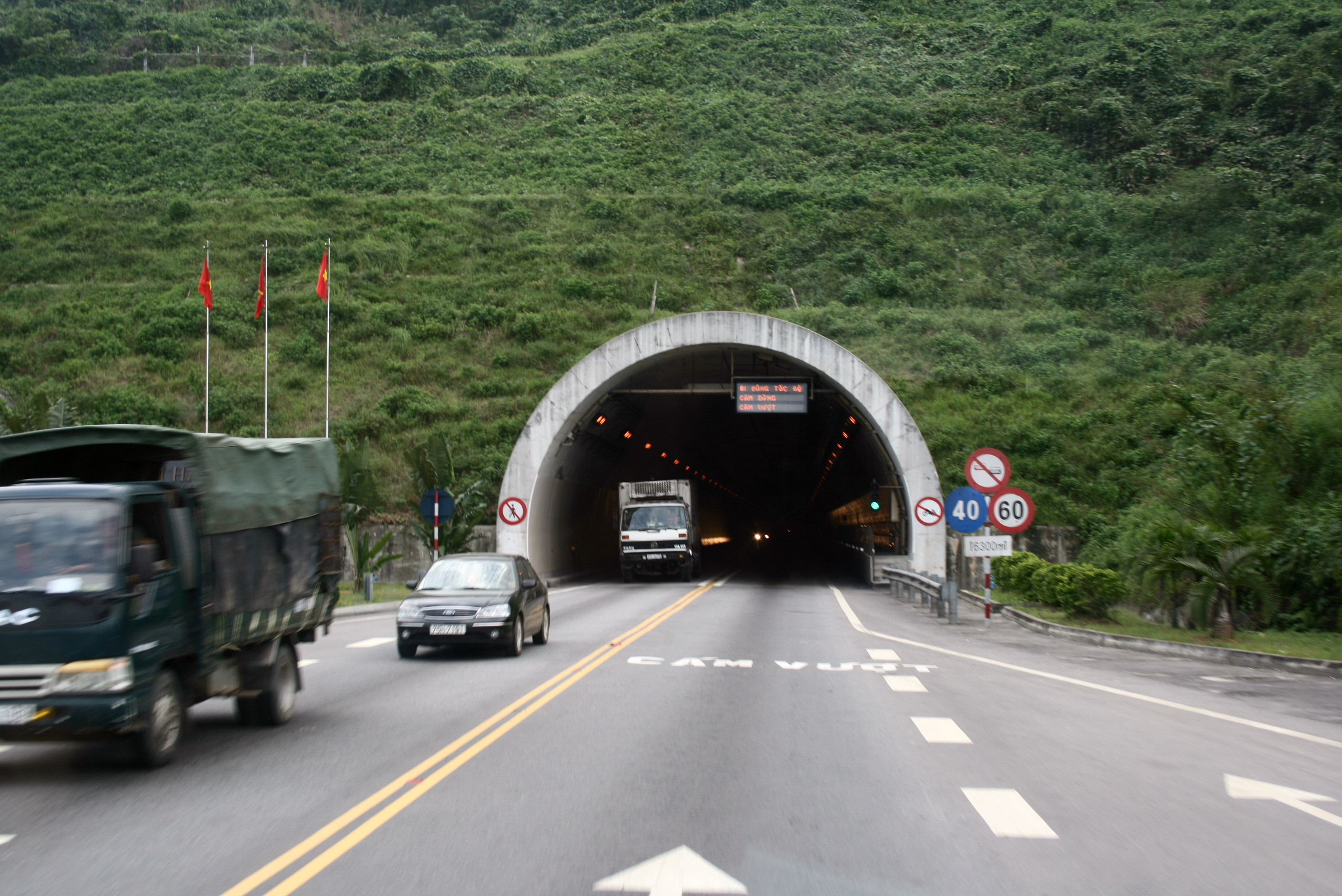 North entrance to Hai Van Tunnel, Thua Thien-Hue Province, Vietnam